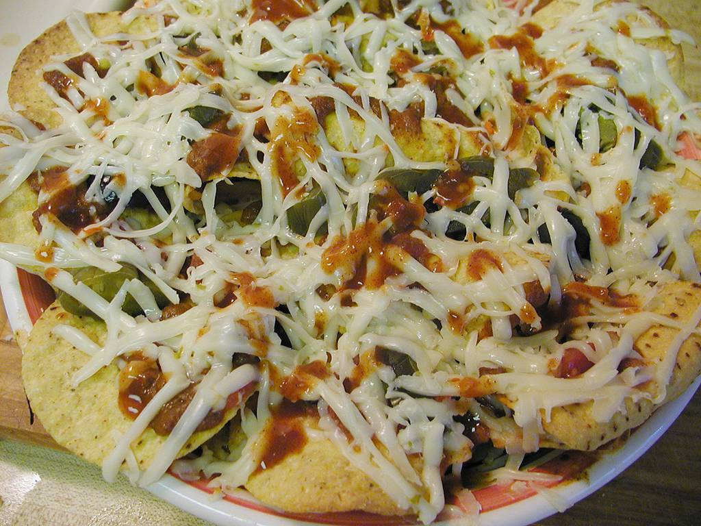 A photo of nachos